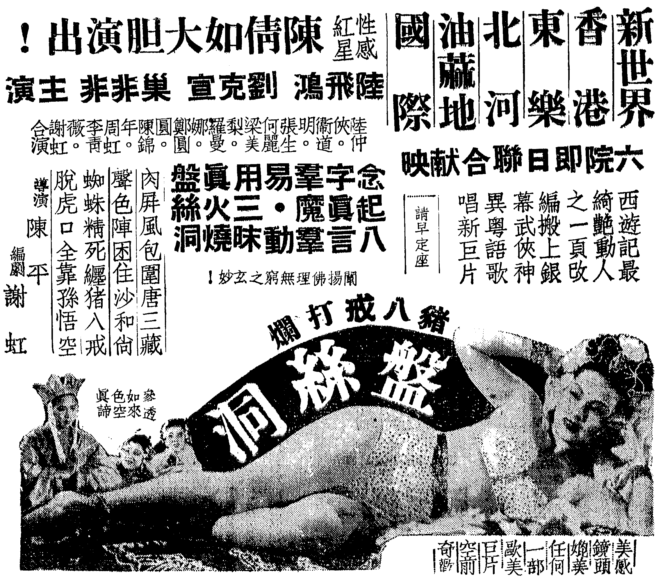 Hong Kong movie advertisement of Pigsy Destroys The Spider Cave (3rd April, 1949) 中文（香港）: 1949年4月3日首映的香港電影《豬八戒打爛盤絲洞》廣告。